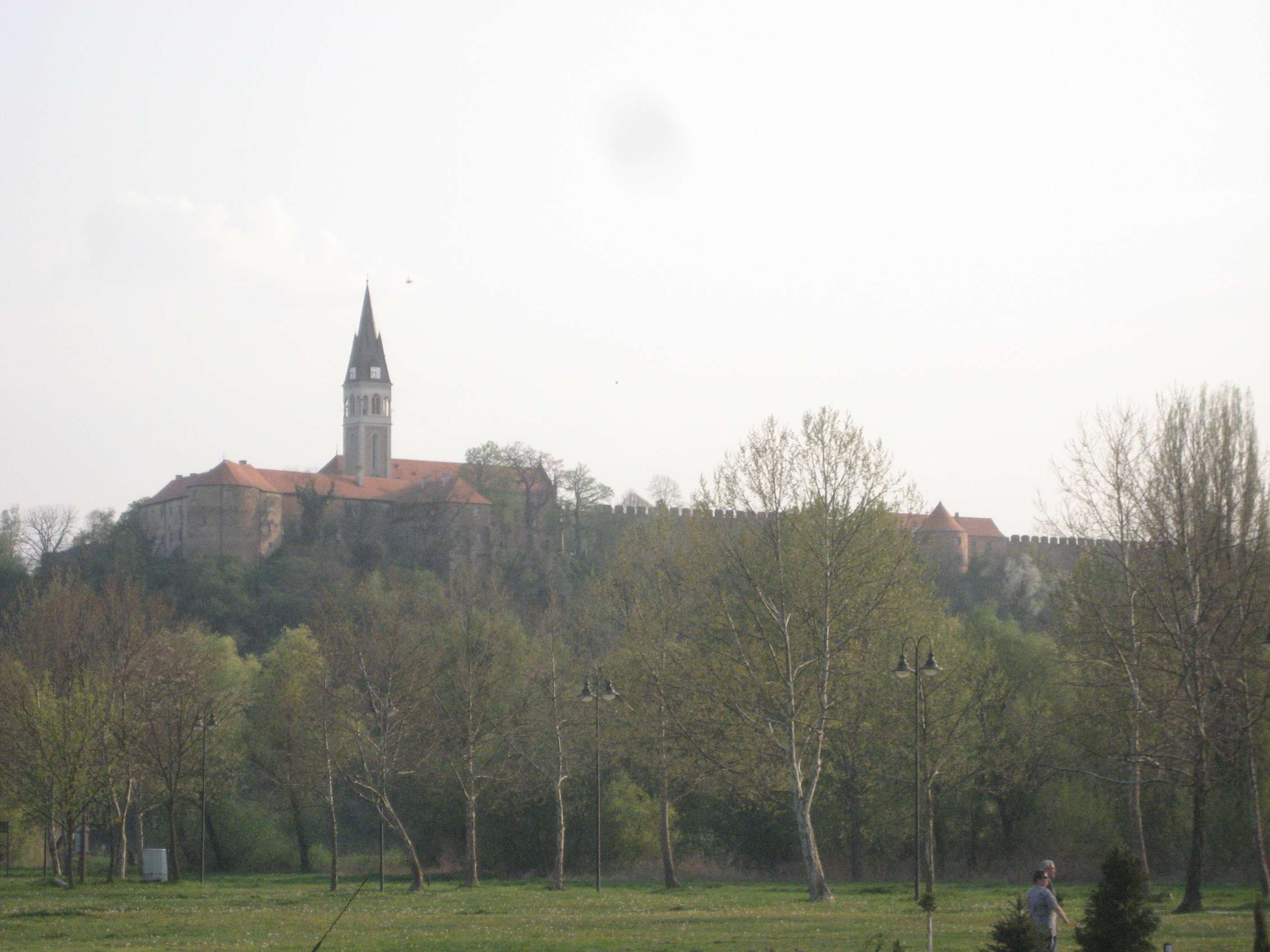 Ilok Fortress, Croatia